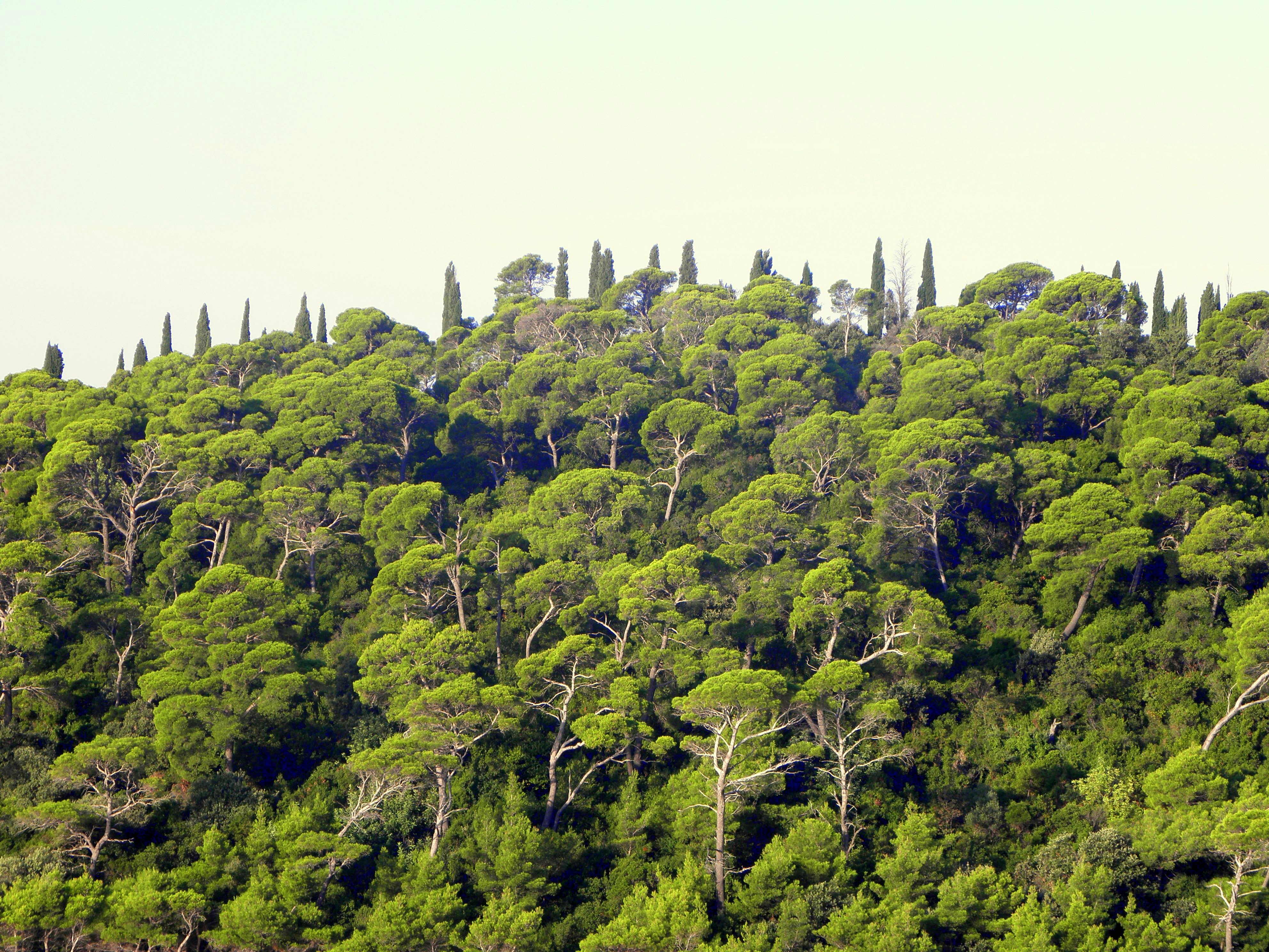 Aleppo Pine Pinus halepensis forest, near Dubrovnik, Croatia